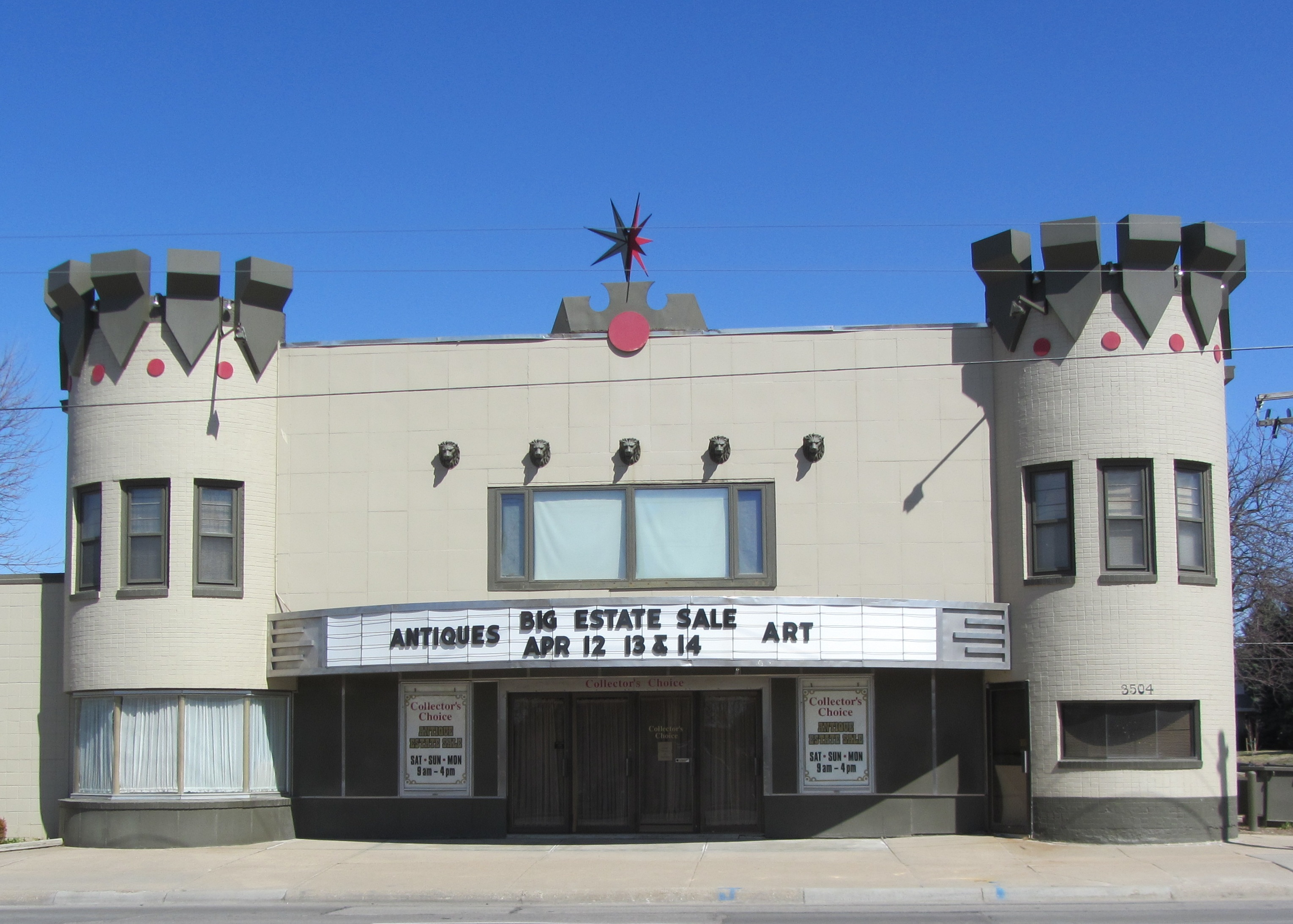 Photo of the former Center Theater, Omaha, Nebraska. The theater later operated as the Emmy Gifford Theater, a children's theatrical company, and now is home to an estate and auction service.